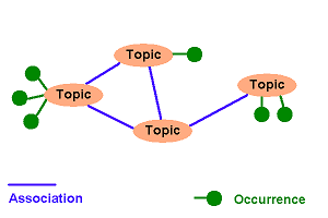 Illustration of how the three key concepts relate in the Topic Map standard. These are topic, association and occurrence. c pouri